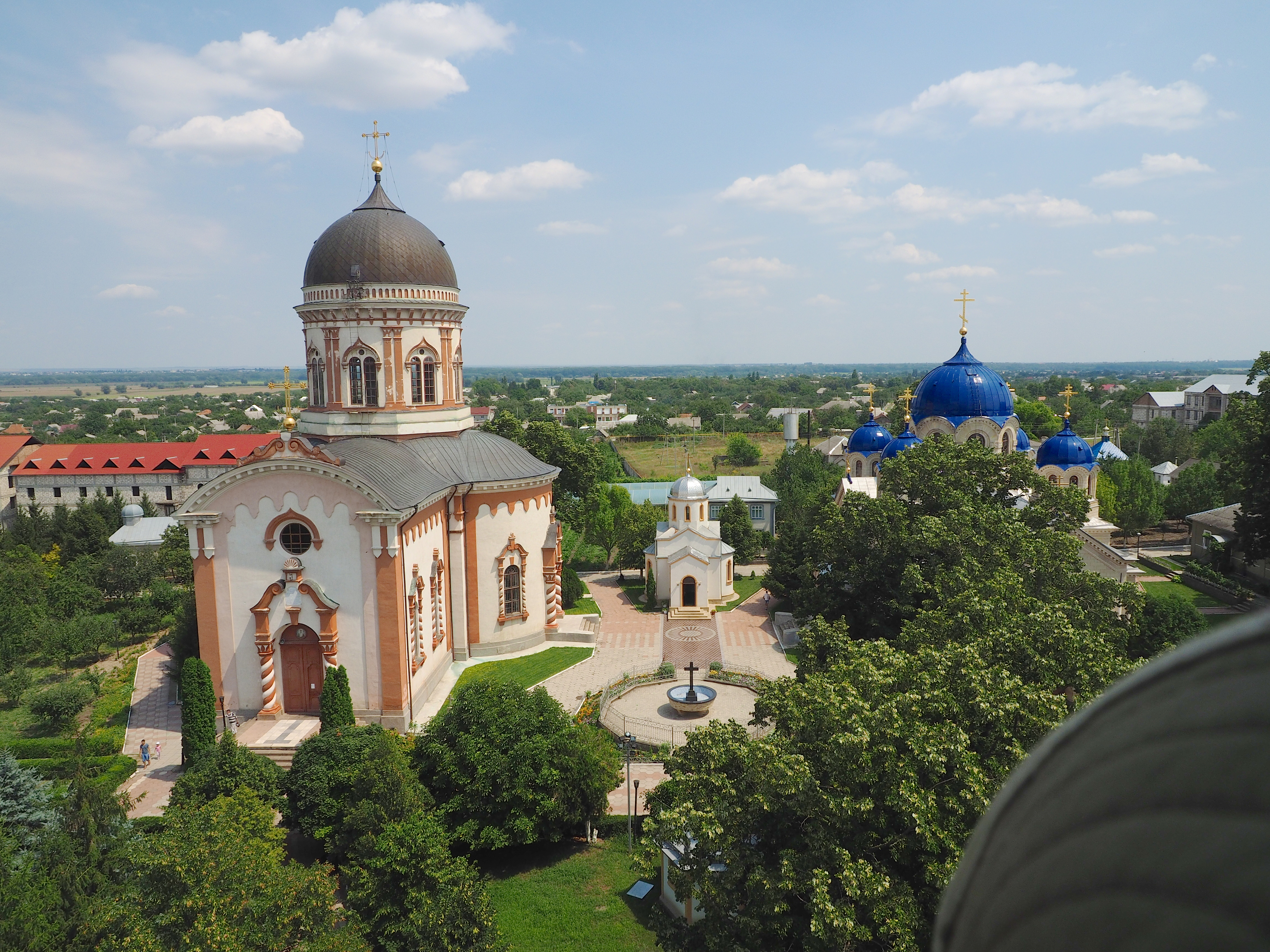 Noul Neamts monastery is located 5 km from Tiraspol city in the village of Chitcani.